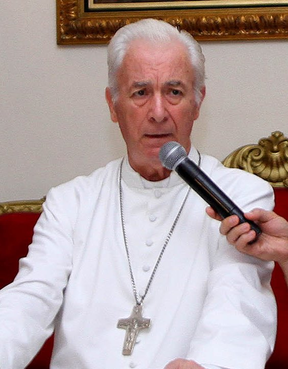 Monseñor Antonio Arregui Yarza, arzobispo de Guayaquil. Imagen captada durante la rueda de prensa sobre la misa que realizaría originalmente el Papa Francisco en el santuario de la Divina Misericordia.